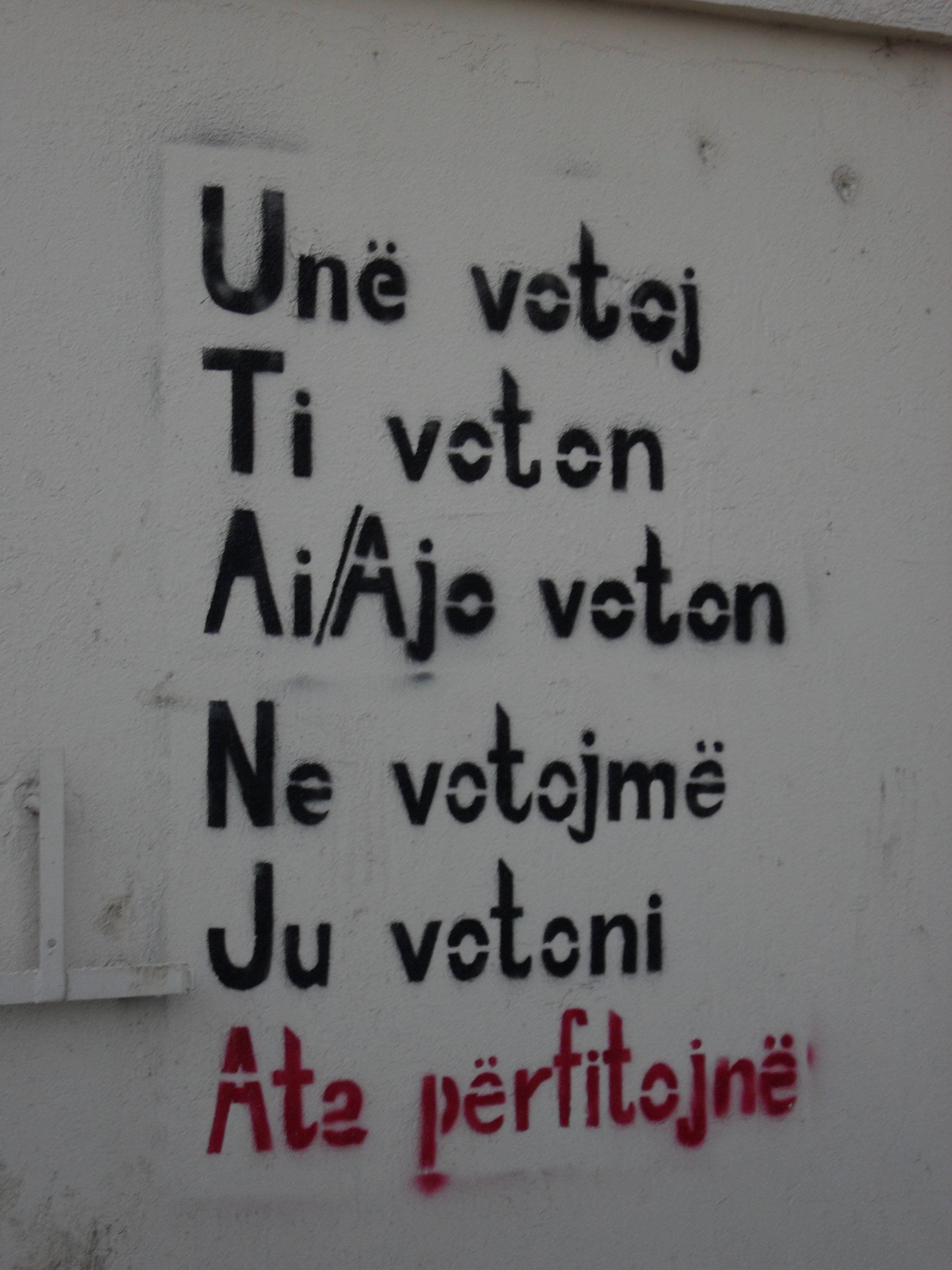 Political graffiti in Prishtina, Kosova.